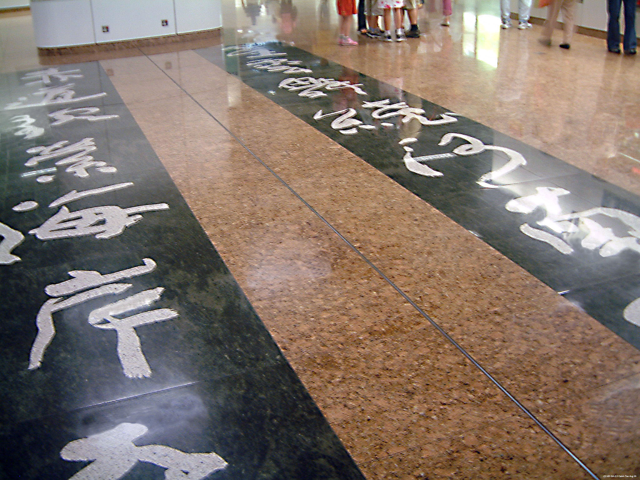 Chinese Calligraphy artwork in Chinatown Station concourse level Taken by me August 2005